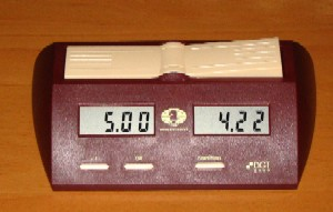 Chess clock